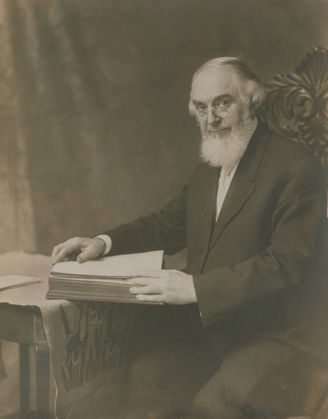 Photograph of Charles Taze Russell.